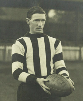 Photograph of Alec Mutch in 1919